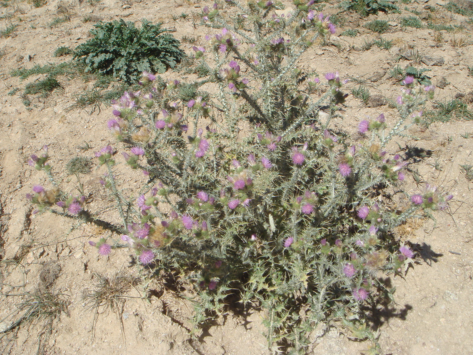 (Carduus carpetanus), Spain, province of Ávila.